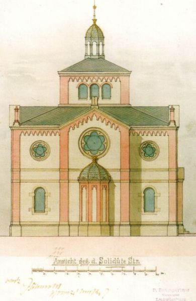 Architect drawing of the synagogue of Ludwigsburg (1884)